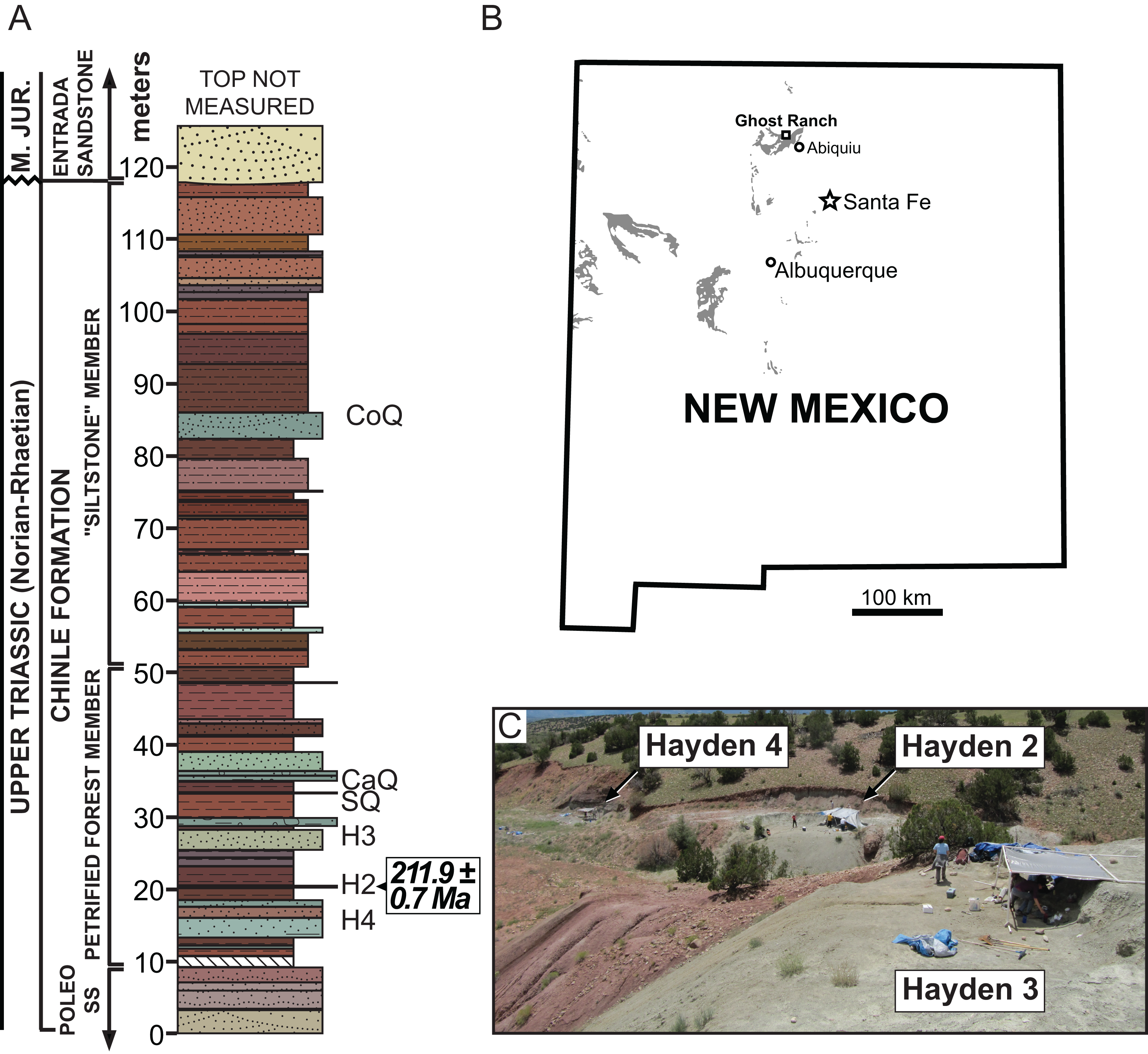 Stratigraphic and geographic location of the Hayden Quarry. (A) Stratigraphic section showing the location of major Ghost Ranch vertebrate fossil sites (adapted from Whiteside et al., 2015), (B) Map of New Mexico with Triassic exposures in grey (adapted from Irmis et al., 2011), and (C) Locality photo of the Hayden Quarry showing the relative locations of paleochannels 2, 3, and 4. Abbreviations: CaQ, Canjilon Quarry; CoQ, Coelophysis Quarry; H2, Hayden Quarry 2; H3, Hayden Quarry 3; H4, Hayden Quarry 4; SQ, Snyder Quarry.